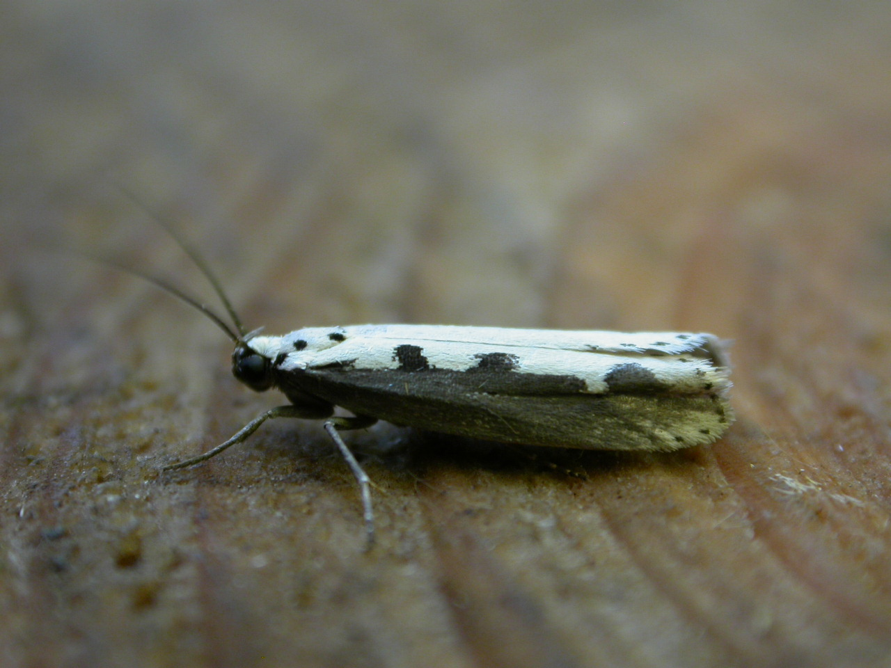 Ethmia bipunctella at Hellerup, Denmark, 26 July 2003